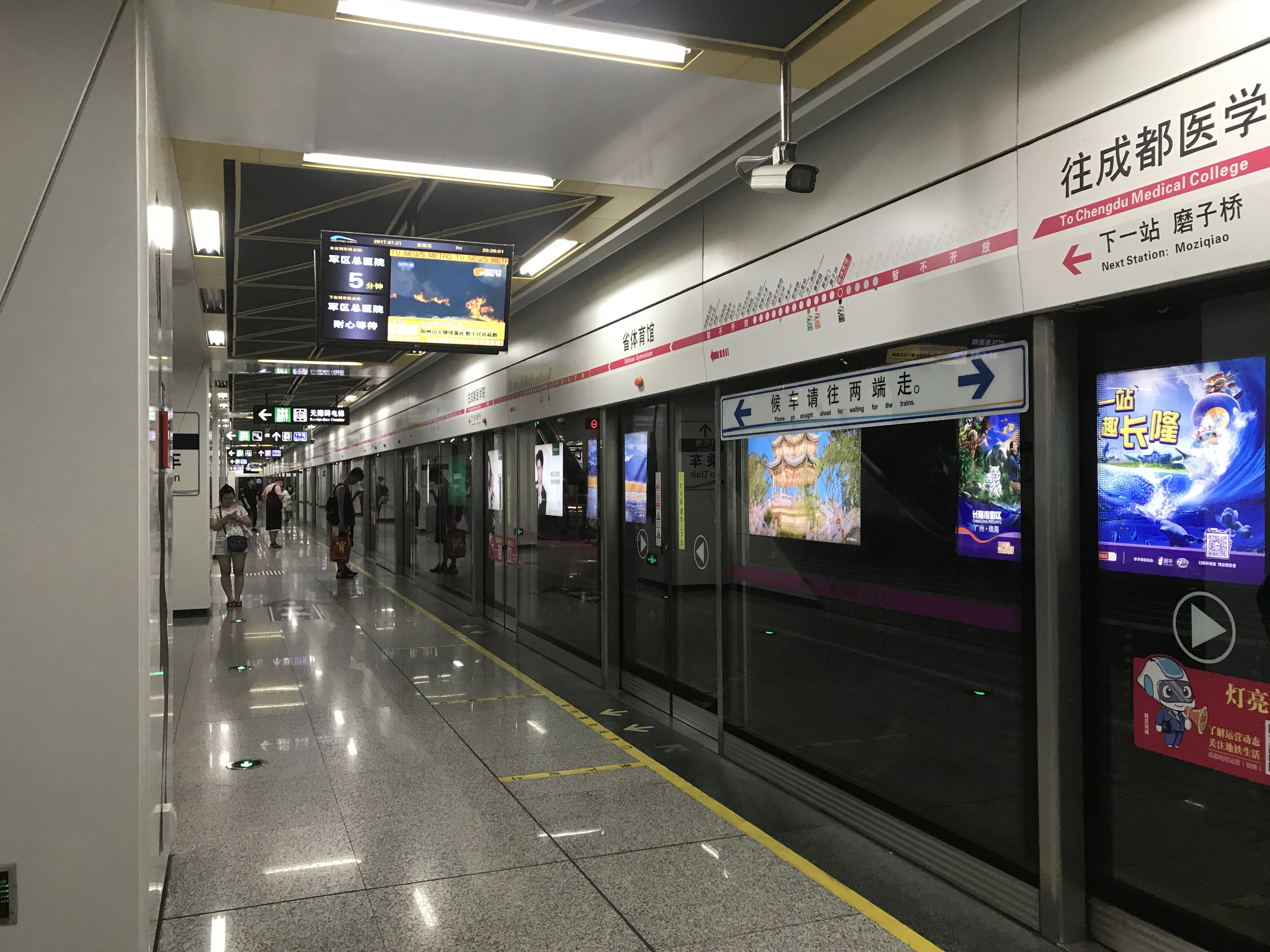 Platform of Line 3 in Sichuan Gymnasium Station, Chengdu Metro